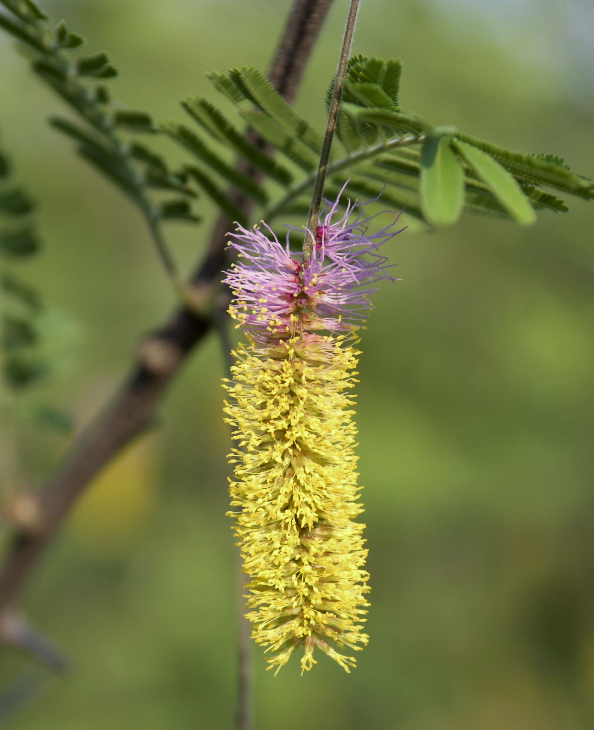 Dichrostachys cinerea, from Kruger National Park.